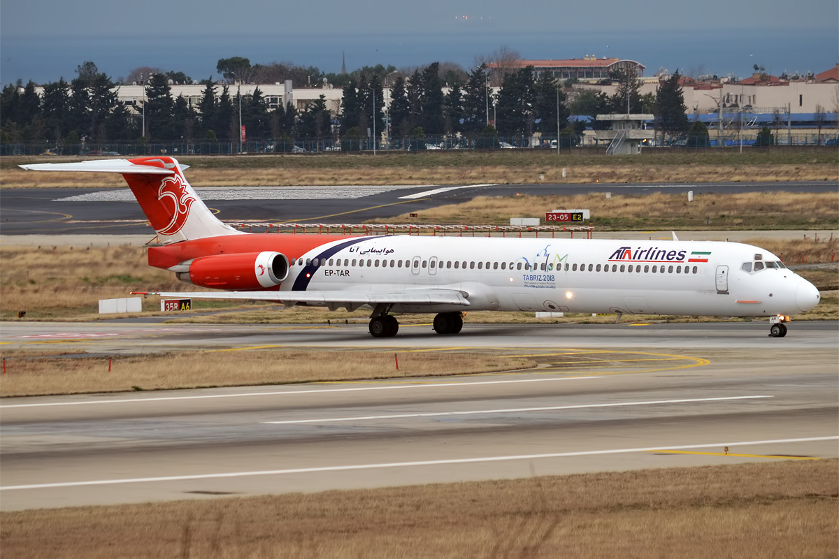 ATA Airlines, EP-TAR, McDonnell Douglas MD-83